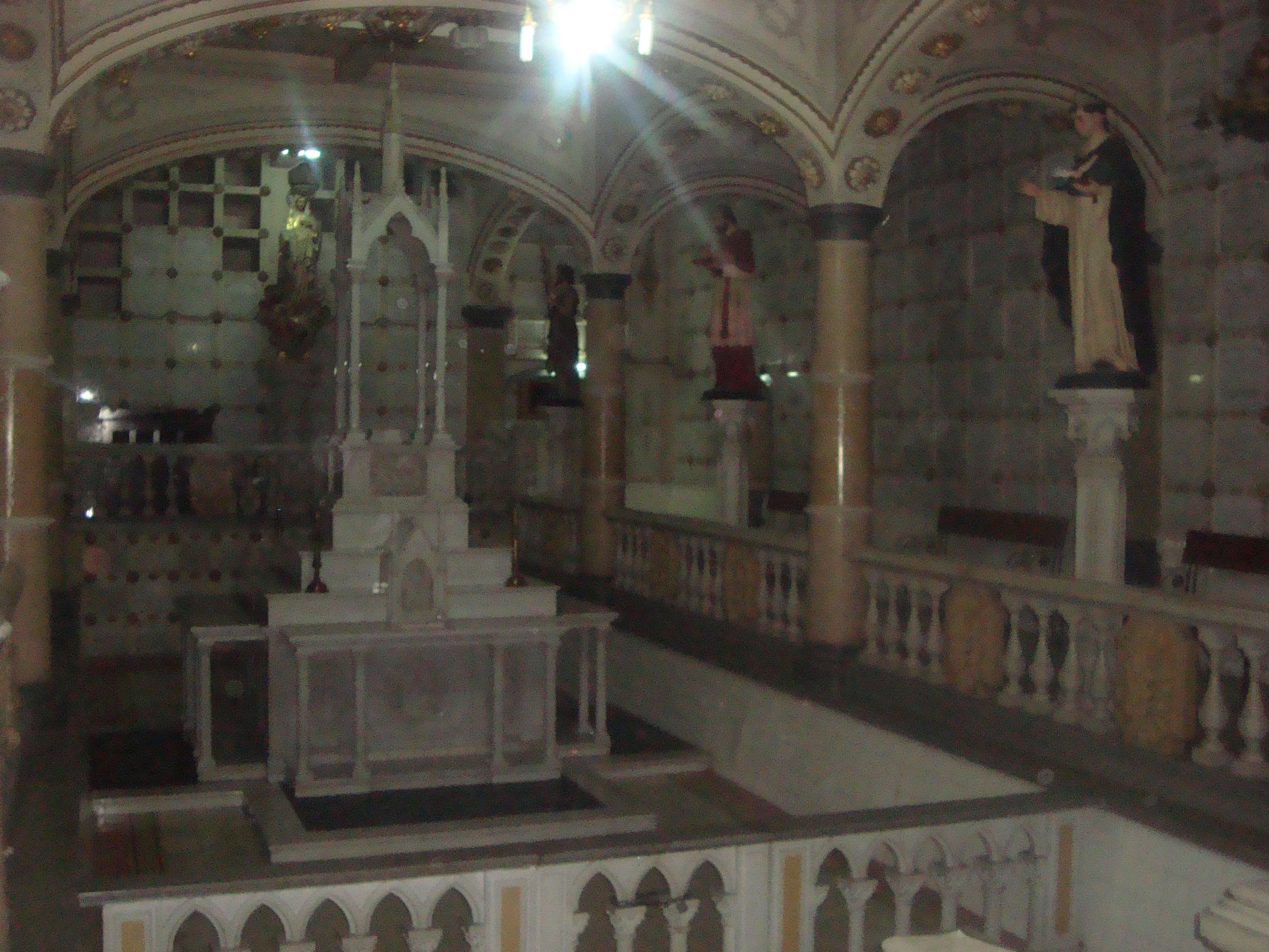 cripta principal